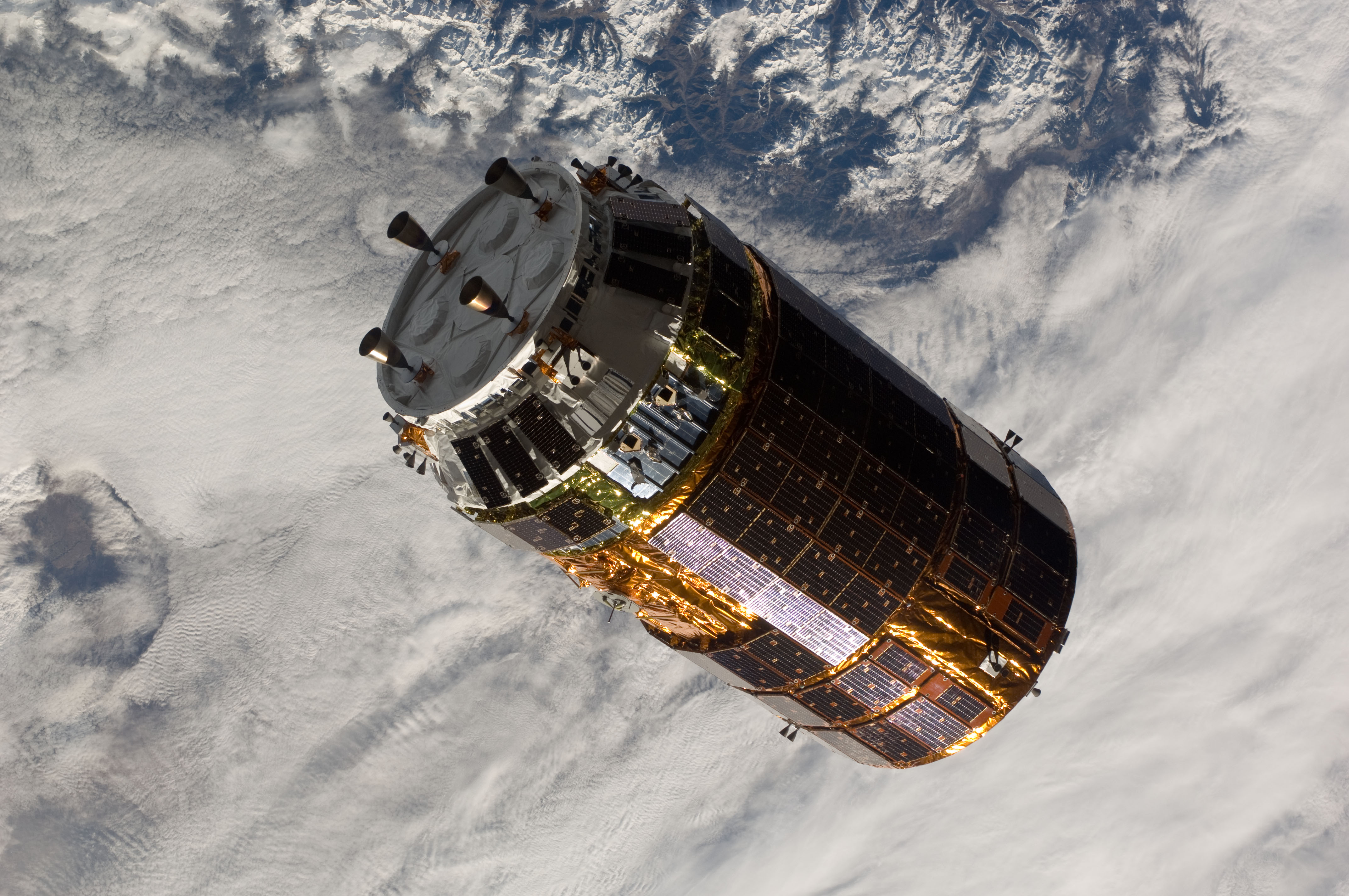 Backdropped by a cloud-covered part of Earth, the unpiloted Japanese Kounotori2 H-II Transfer Vehicle (HTV2) approaches the International Space Station. The Japan Aerospace Exploration Agency (JAXA) launched HTV2 aboard an H-IIB rocket from the Tanegashima Space Center in southern Japan at 12:37 a.m. (EST) (2:27 p.m. Japan time) on Jan. 22, 2011. HTV2 is the second unpiloted cargo ship launched by JAXA to the station and will deliver more than four tons of food and supplies to the space station and its crew members.